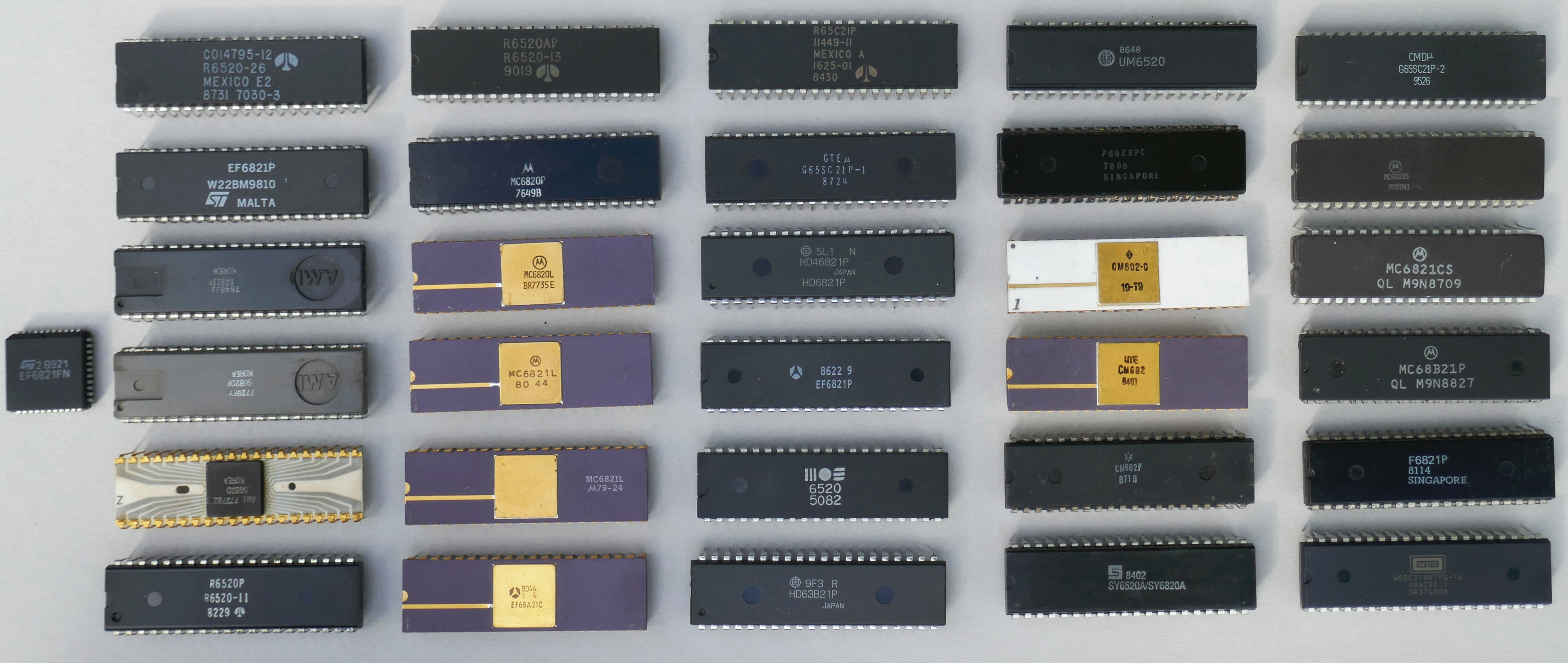 PIA ICs of different manufacturers